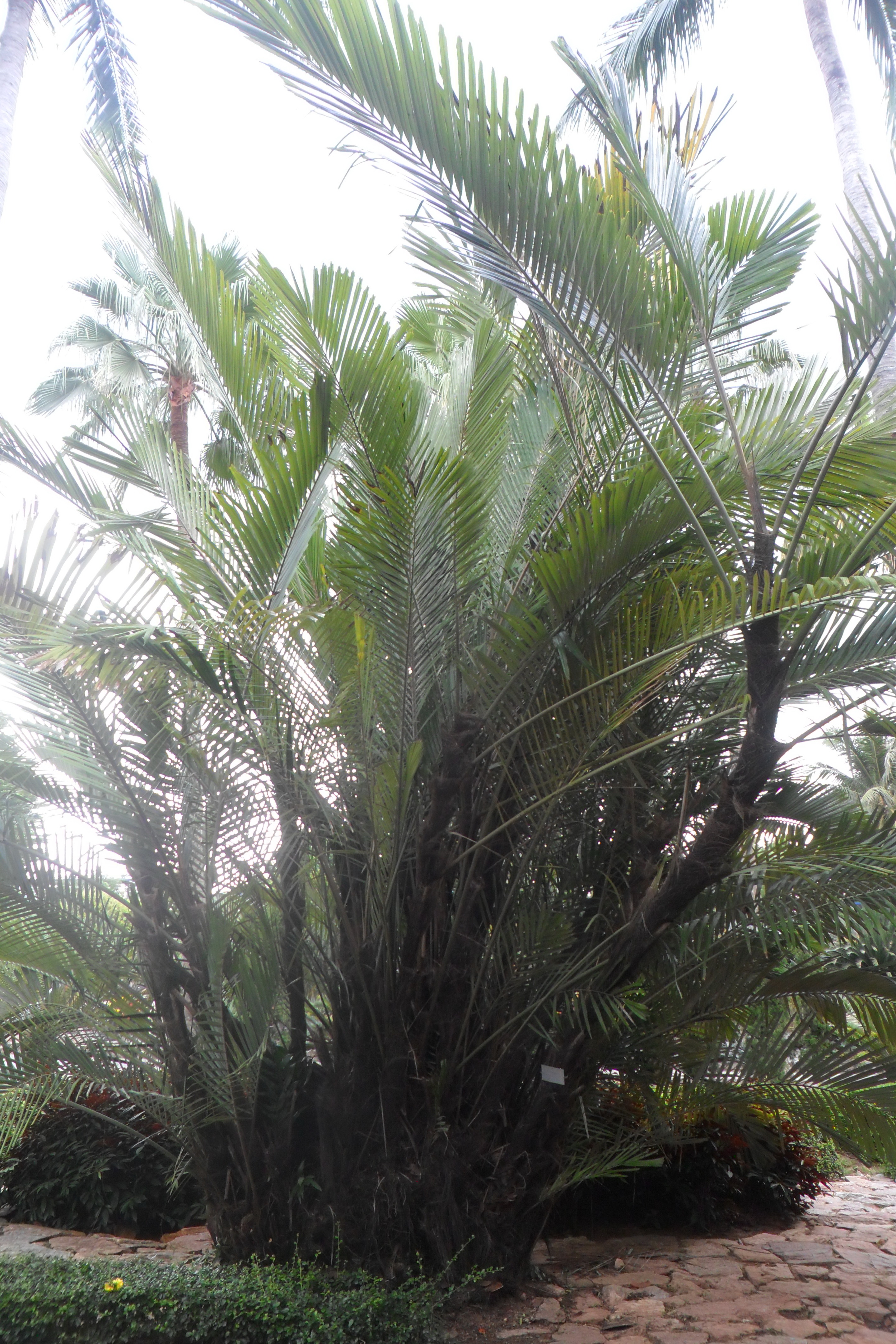 Arenga engleri. Nong Nooch Tropical Garden.